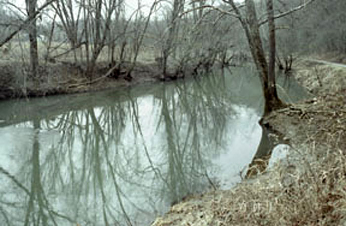 Photograph by Tim Kiser. The Little Muskingum River near Wingett Run, Ohio, 1 Jan 1997.